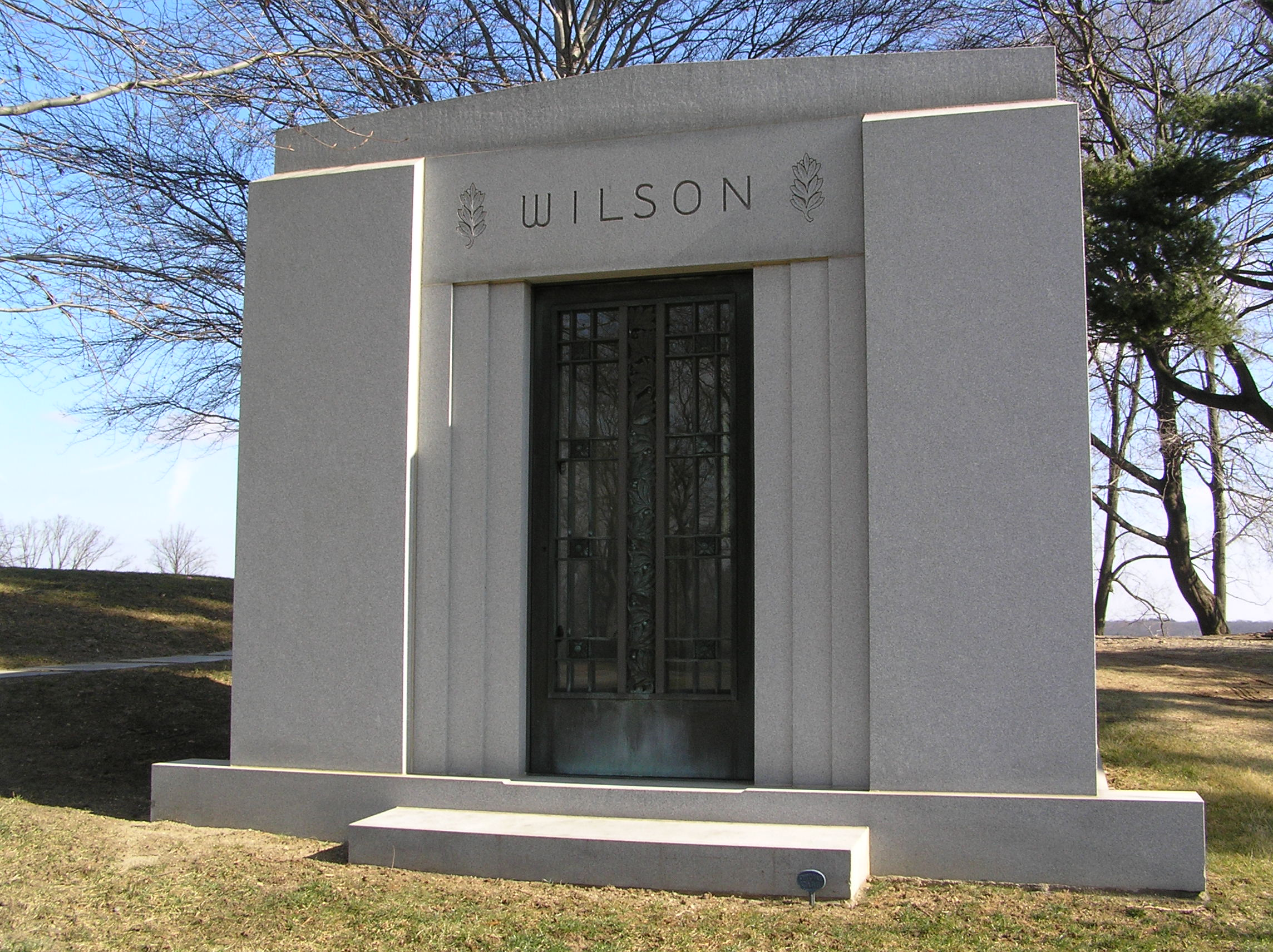 The mausoleum of Charles E. Wilson in Kensico Cemetery. This mausoleum is located in Section 99 of the cemetery, adjacent to the Tower Entrance. The mausoleum of Charles E. Wilson in Kensico Cemetery. This mausoleum is located in Section 99 of the cemetery, adjacent to the Tower Entrance.